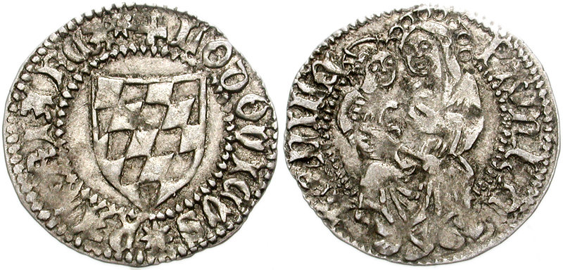 Patriarch of Aquileia - Louis of Teck AR Soldo da 12 bagattini (19mm, 0.70 g, 11h). LOdOVICVS PATRIARCA, patriarchal coat-of-arms Virgin seated facing, holding Child.